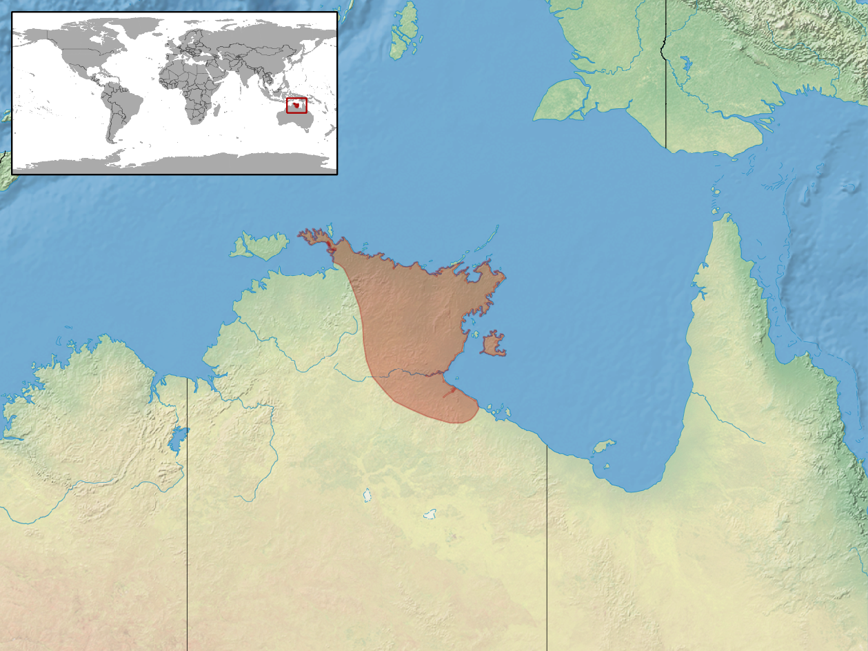 geographic distribution of Lerista stylis